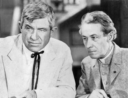 Will Rogers (left) and Henry B. Walthall in the film Judge Priest (1934) - original image (see source) cropped